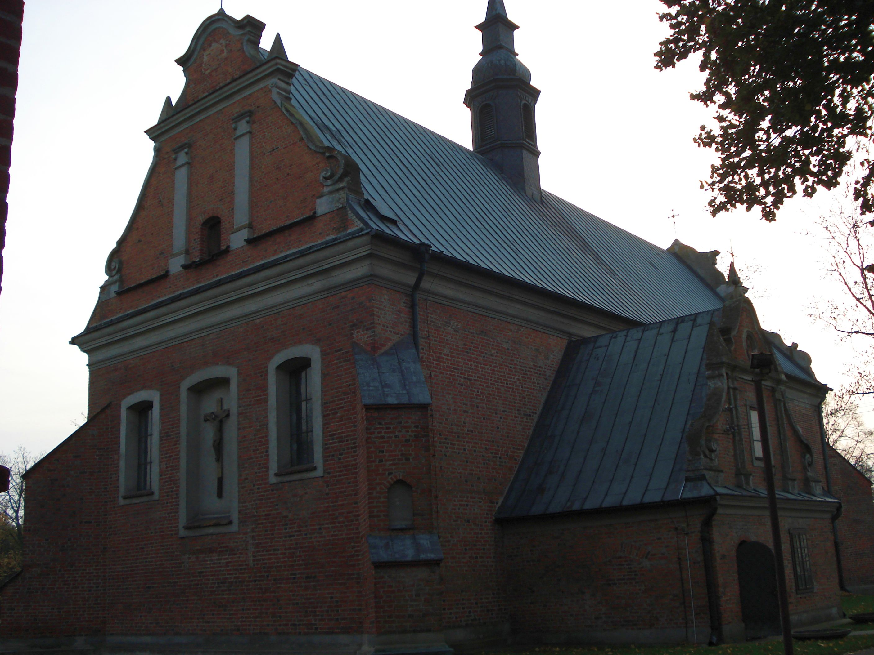 Parish Church in Drobin, 15th-18th c.